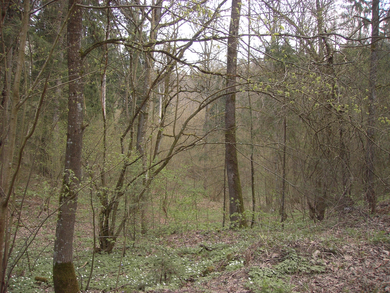 Strošiūnai Forest in spring